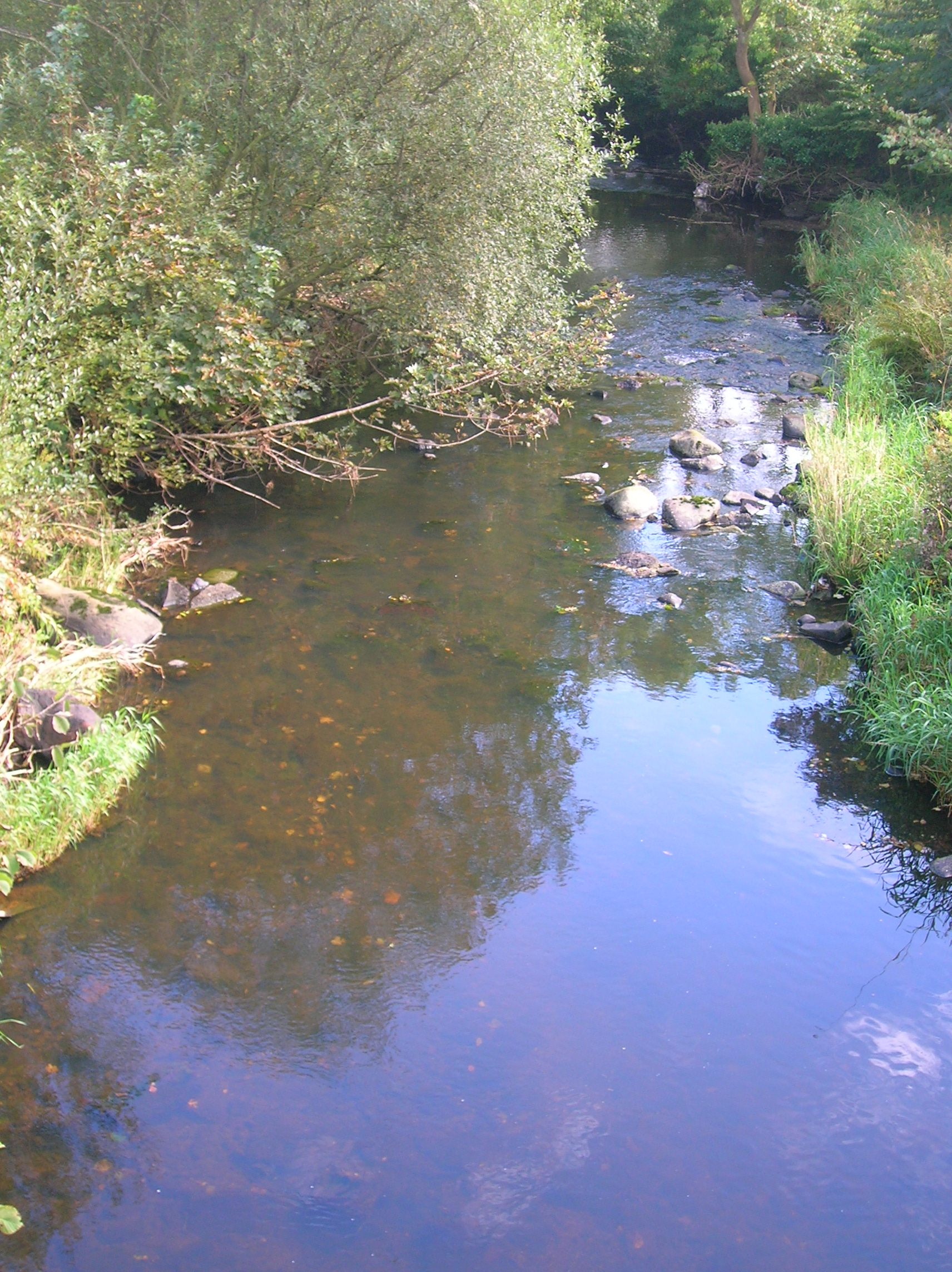 The Lugton Water near Fergushill, Eglinton Country Park, Kilwinning, North Ayrshire, Scotland.